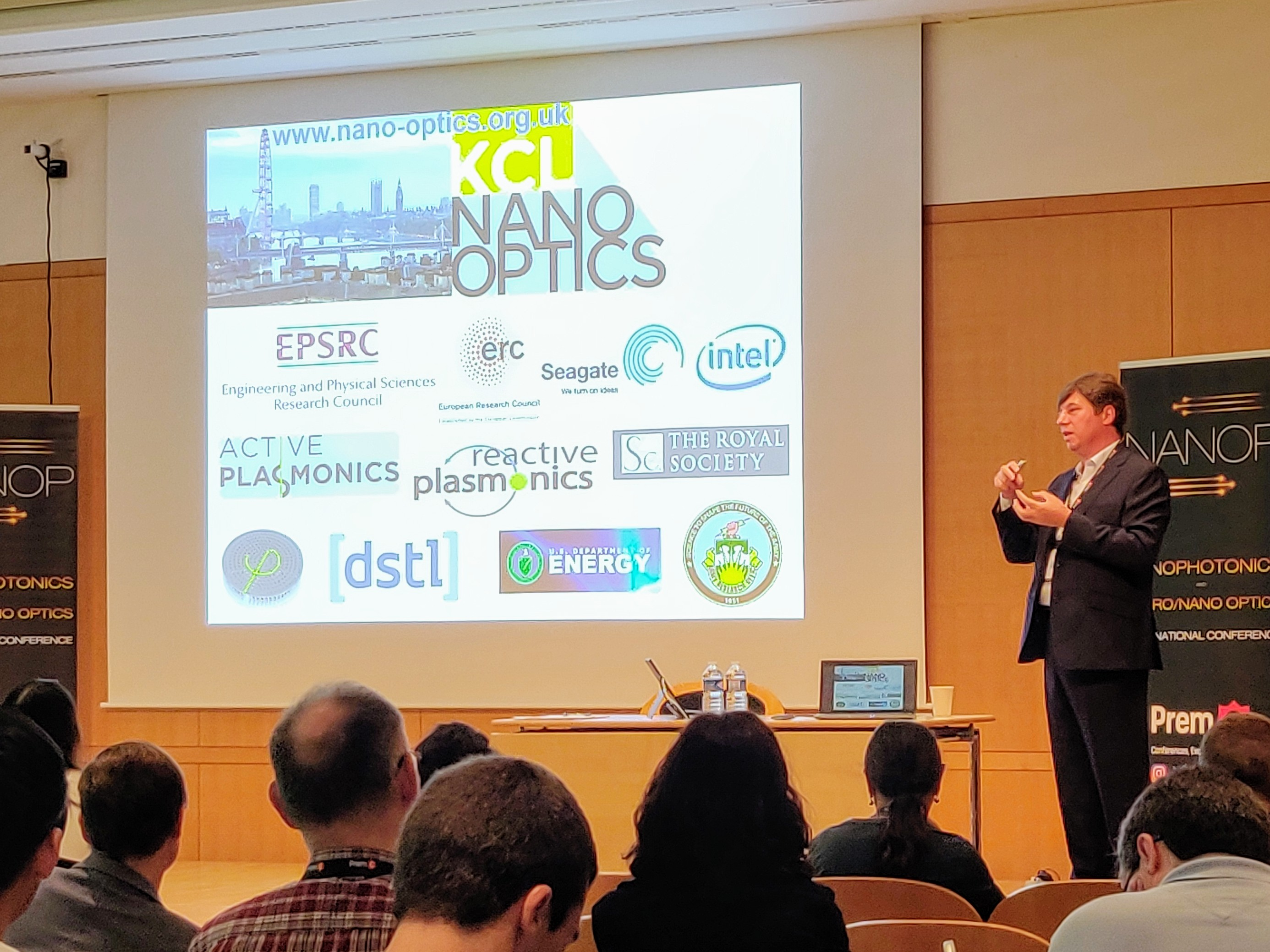 Prof. Anatoly Zayats at the NANOP 2019 conference, Munich